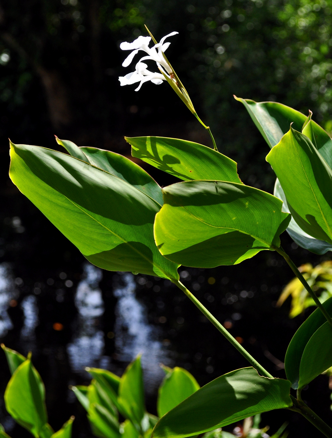 Bamban, Donax canniformis; flowers and habits. From West Kalimantan, Indonesia.